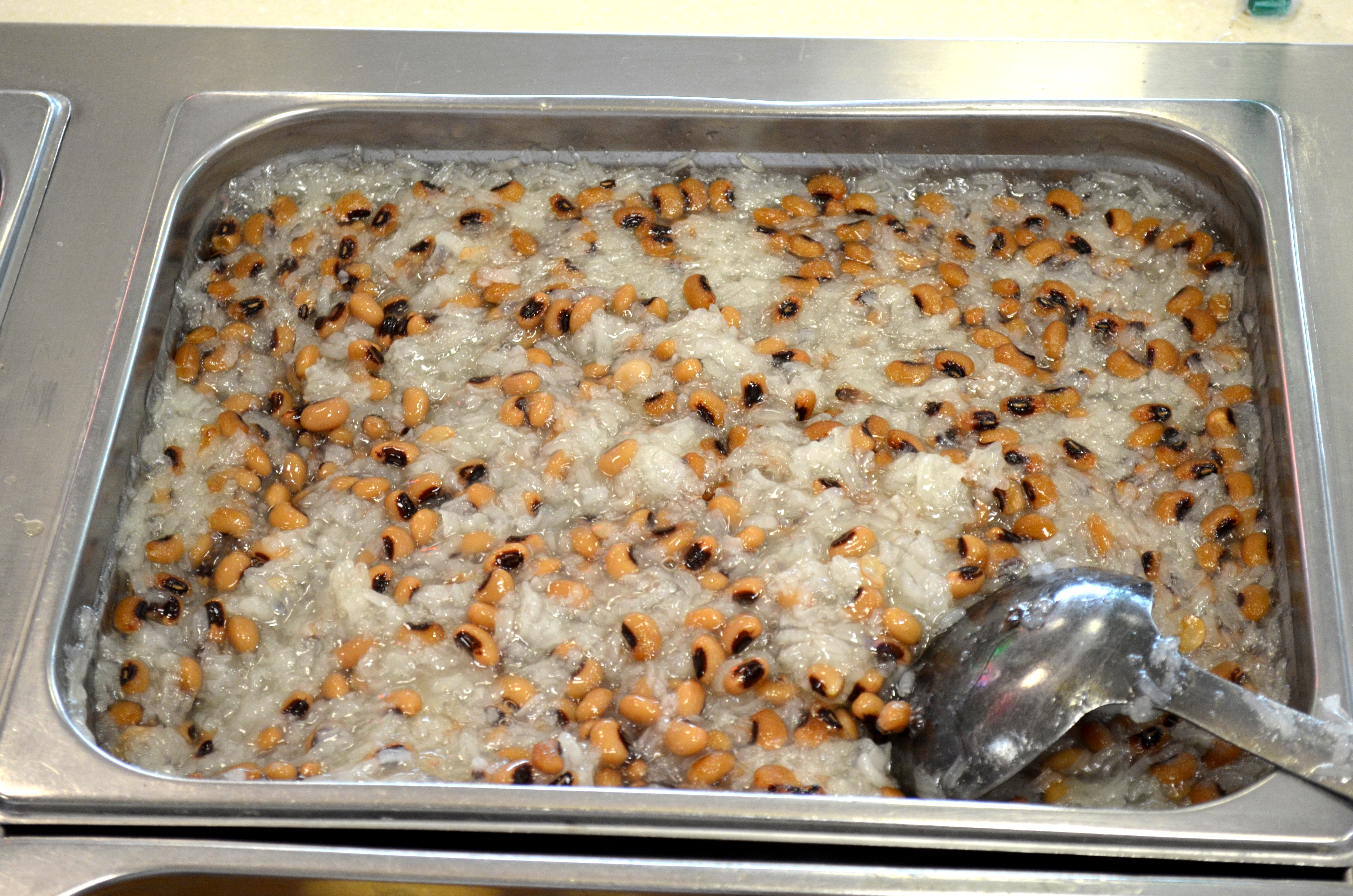 Bowl of Vietnamese dessert. Black-eyed peas in tapioca rice pudding.